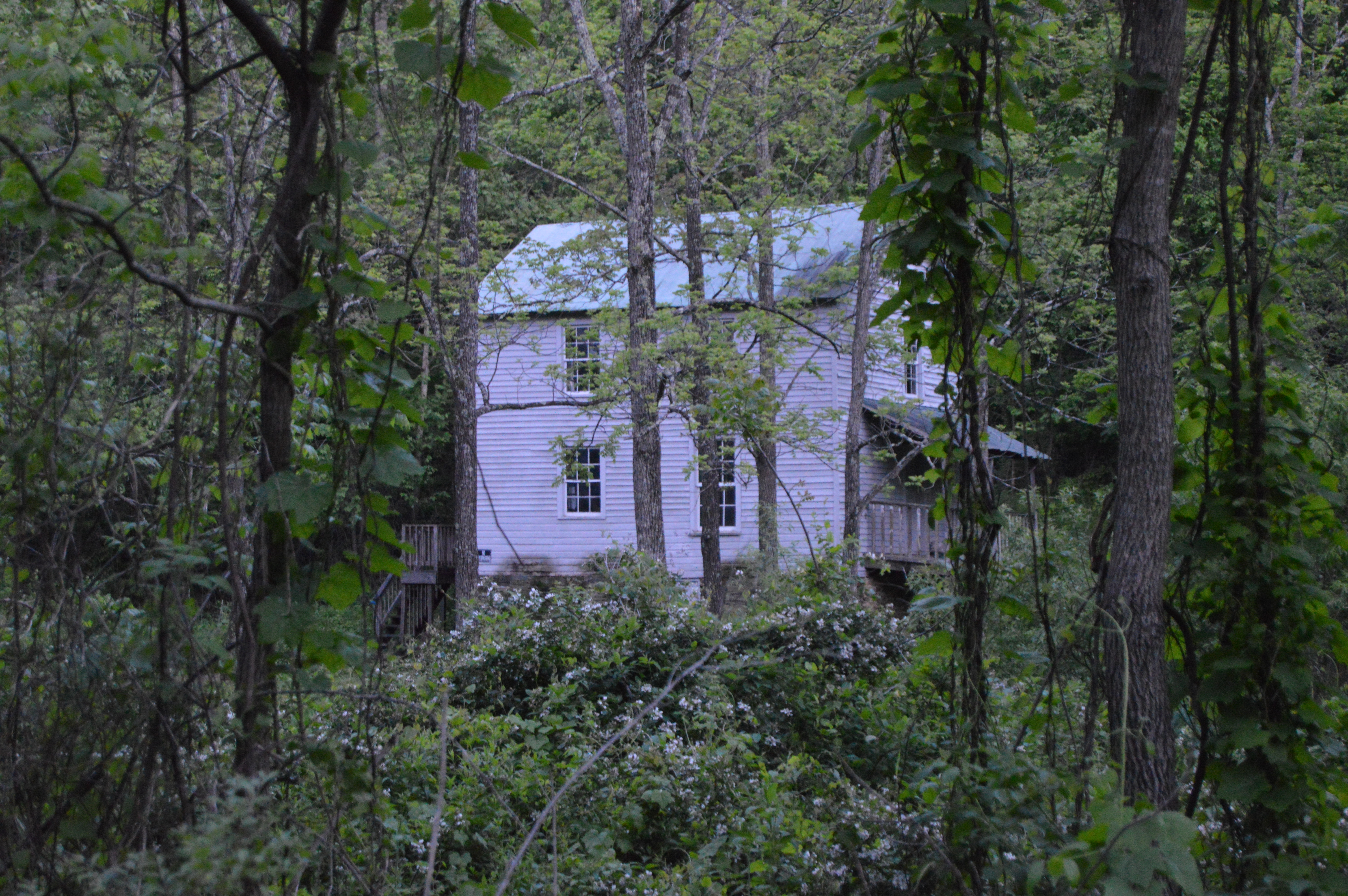 Through-the-trees view of the Goblintown Mill, located on New Hope Road just west of Fairy Stone State Park in Patrick County, Virginia, United States. Built in 1850, it is listed on the National Register of Historic Places.